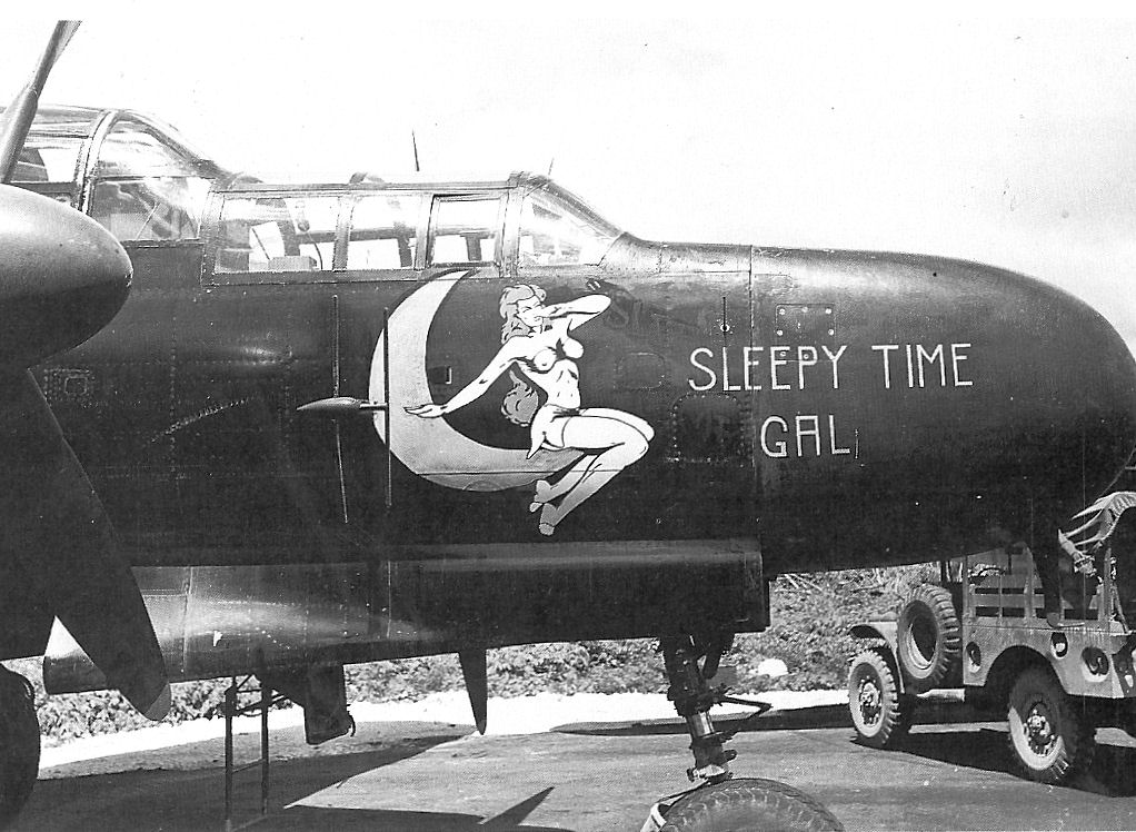 Northrup P-61A 42-5598 "Sleepy Time Gal" 6th Night Fighter Squadron.